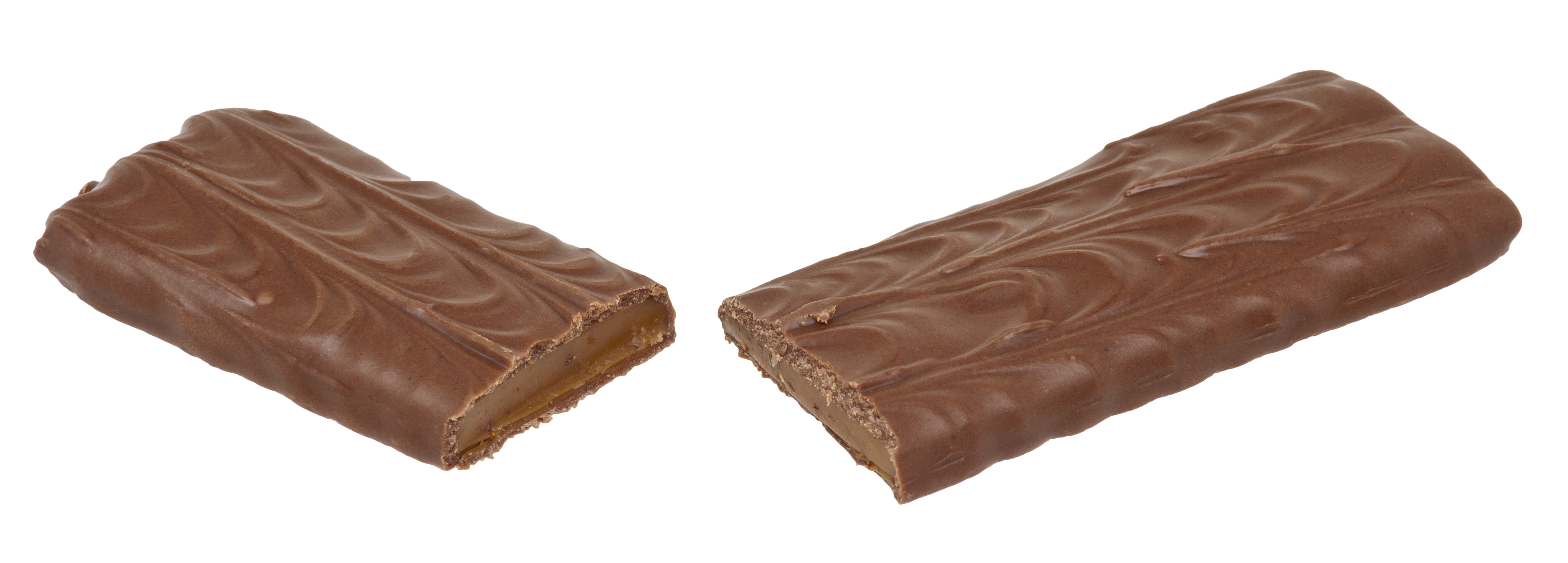 A Skor candy bar, broken in half. It's a butter toffee covered in chocolate, and made by Hershey's.